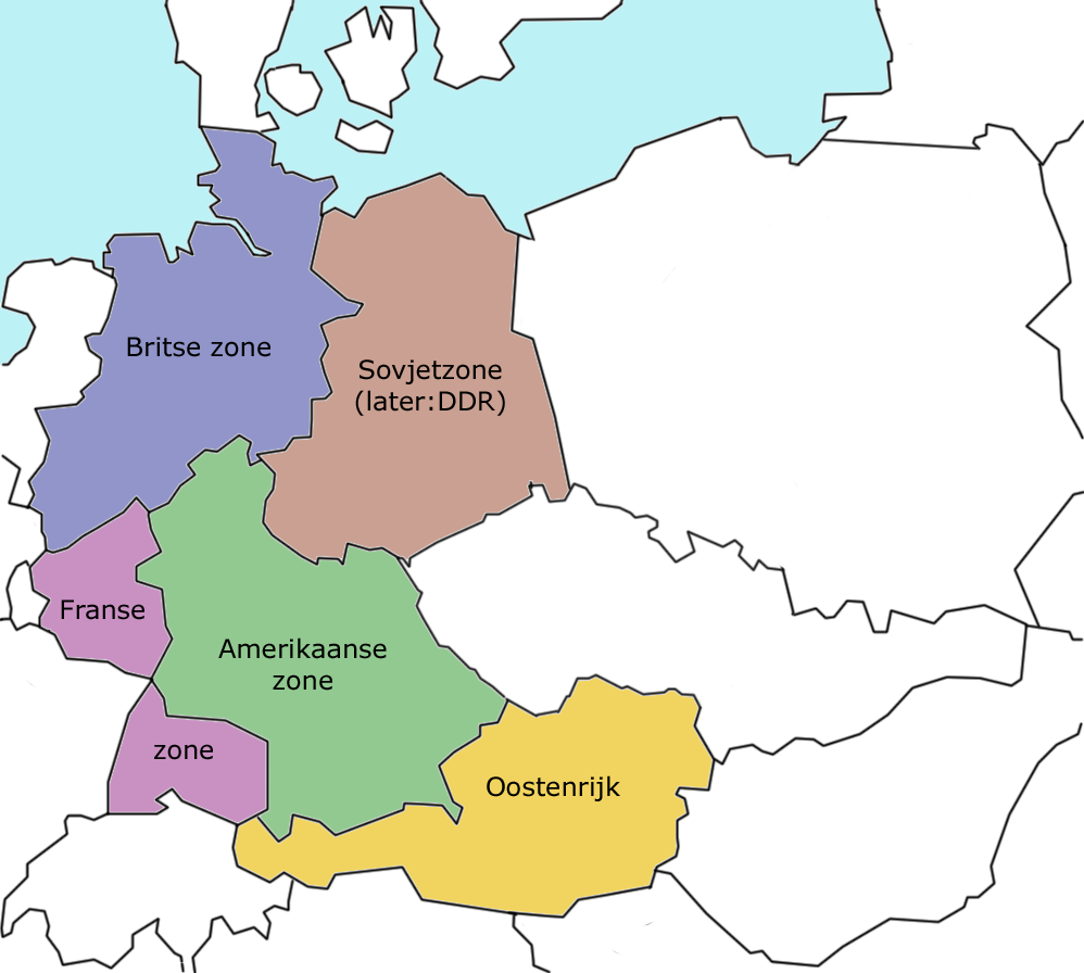 Definitive partition of Germany in occupation areas